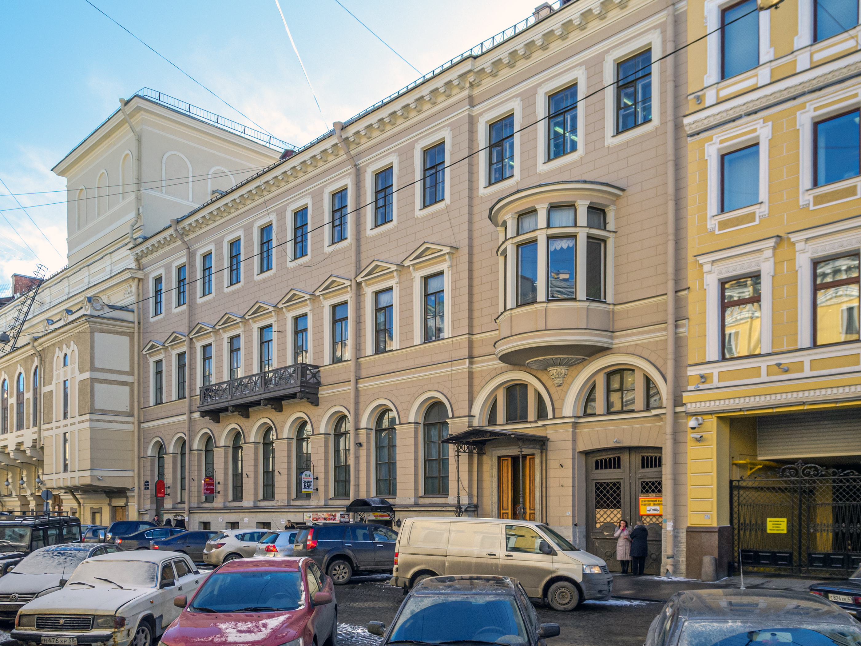 17, Italianskaya Street in Saint Petersburg.